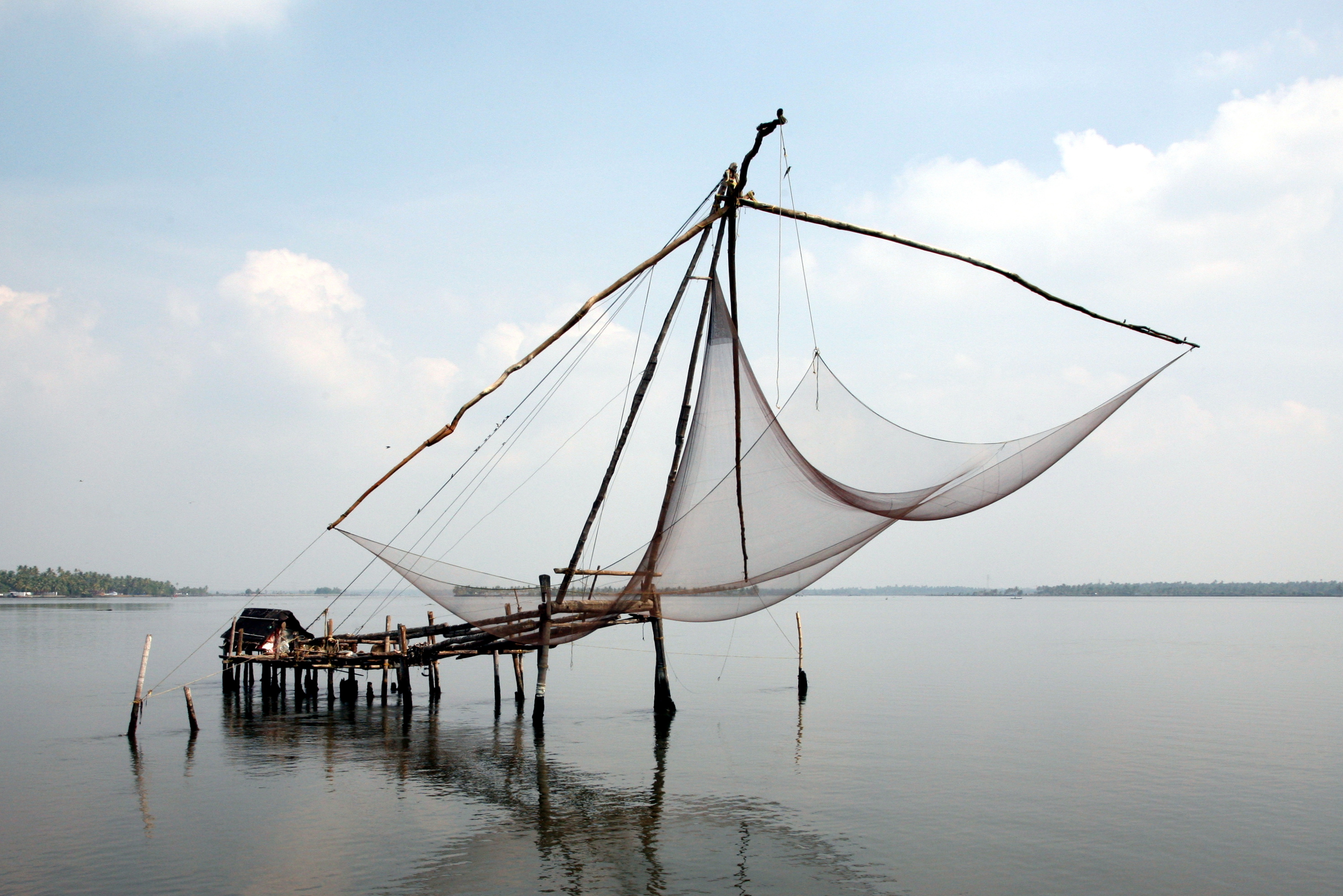 Chinese fishing net near Kochi.